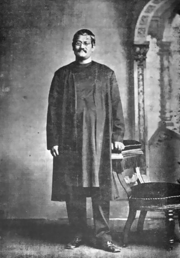 Image of Keshab Chandra Sen (also spelled Keshub Chunder Sen)